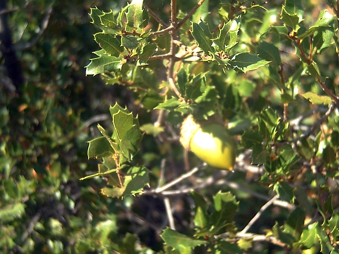 A own work release by Javier martin gathered Sierra Madrona up, 30 september 2006, donated to Wikipedia fundation. Quercus coccifera, de Sierra Madrona, Solana del Pino.